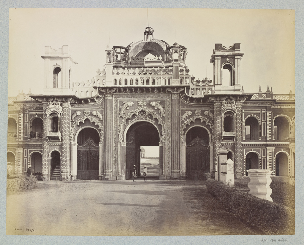 West gateway of the Qaisar Bagh Palace, Lucknow in the 1860s